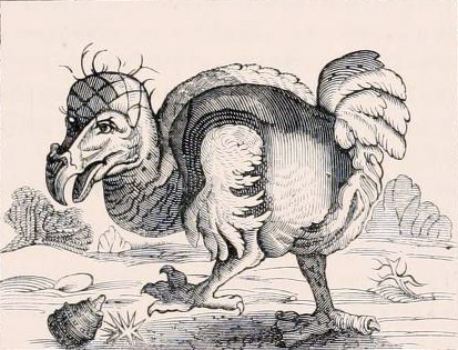 1646 drawing of a dodo Willem IJsbrantszoon Bontekoe claimed to have seen on Reunion. It is now known to be based on the Crocker Gallery dodo sketch by Roelant Savery.